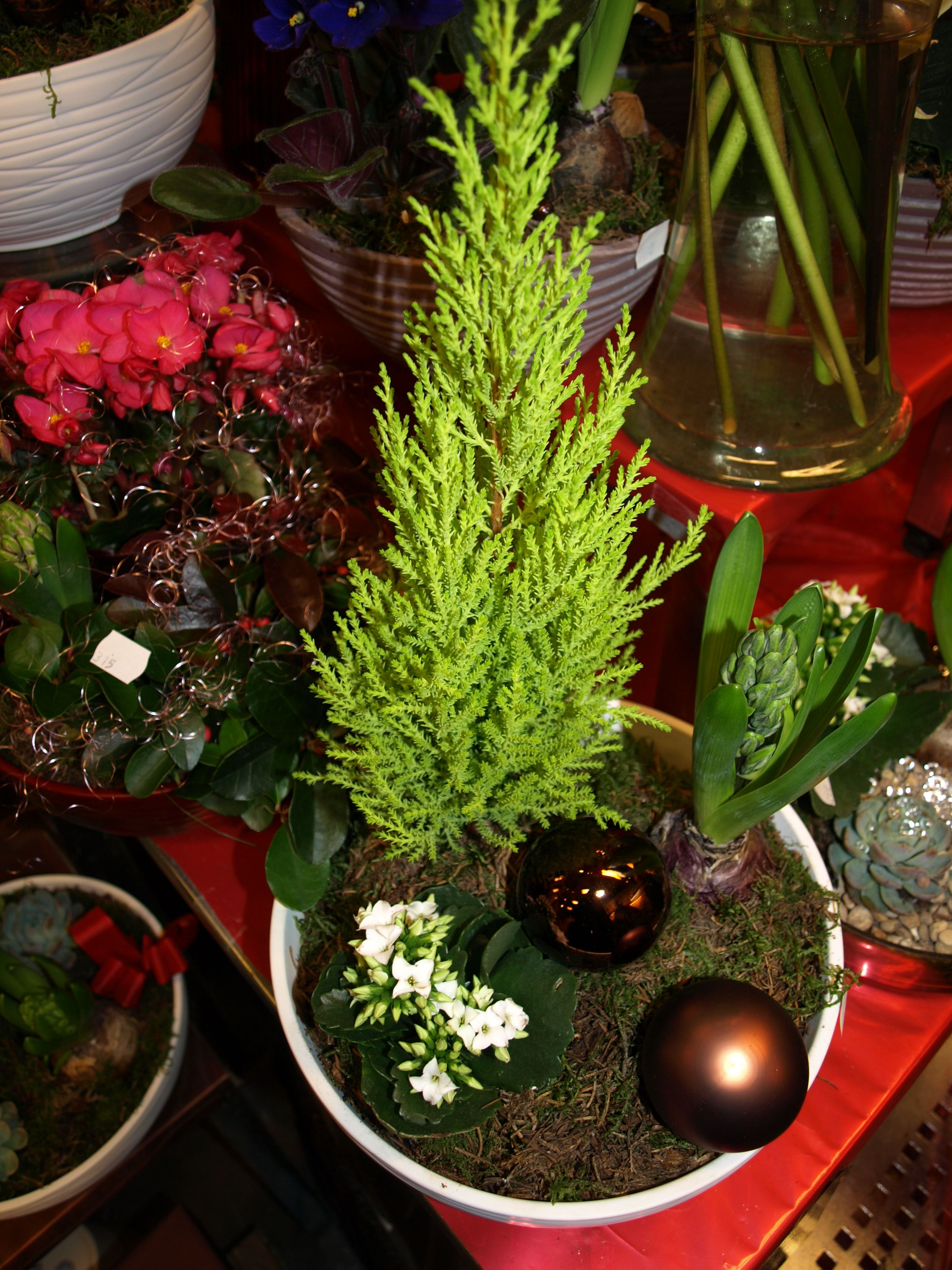 A planting of 3 different kinds of flowers, sold in a store in Sweden. These kinds of plantings are traditionally sold around Christmas in Sweden.